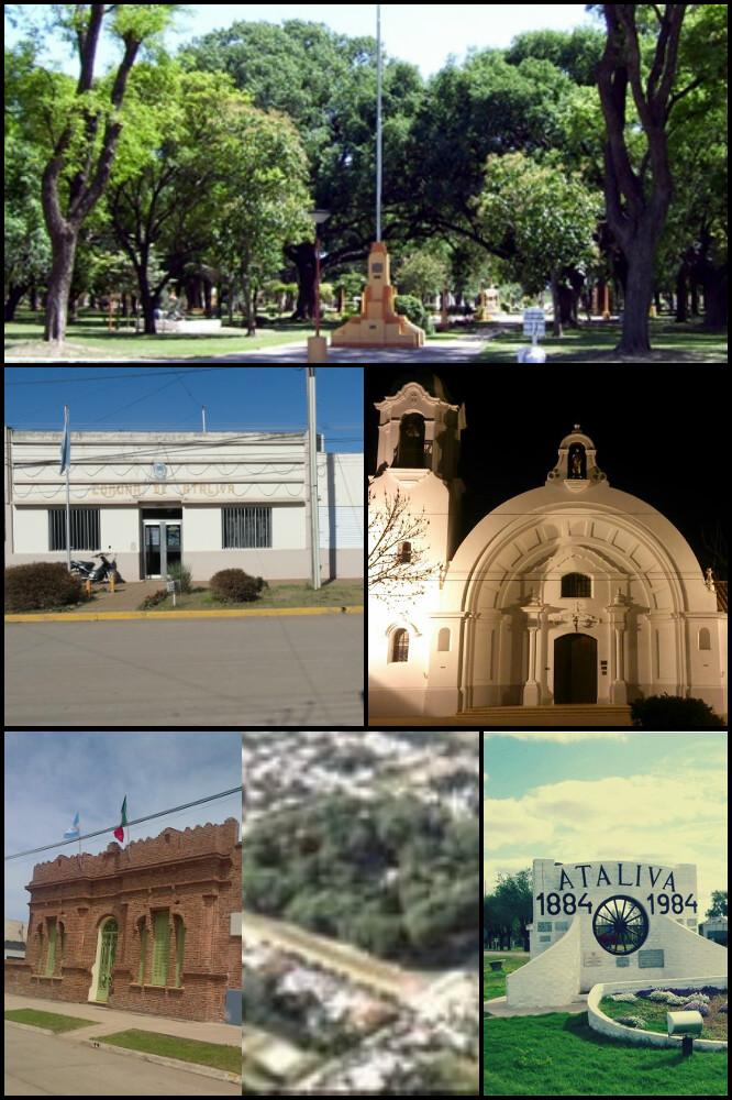 Images montage of Ataliva, Argentina.